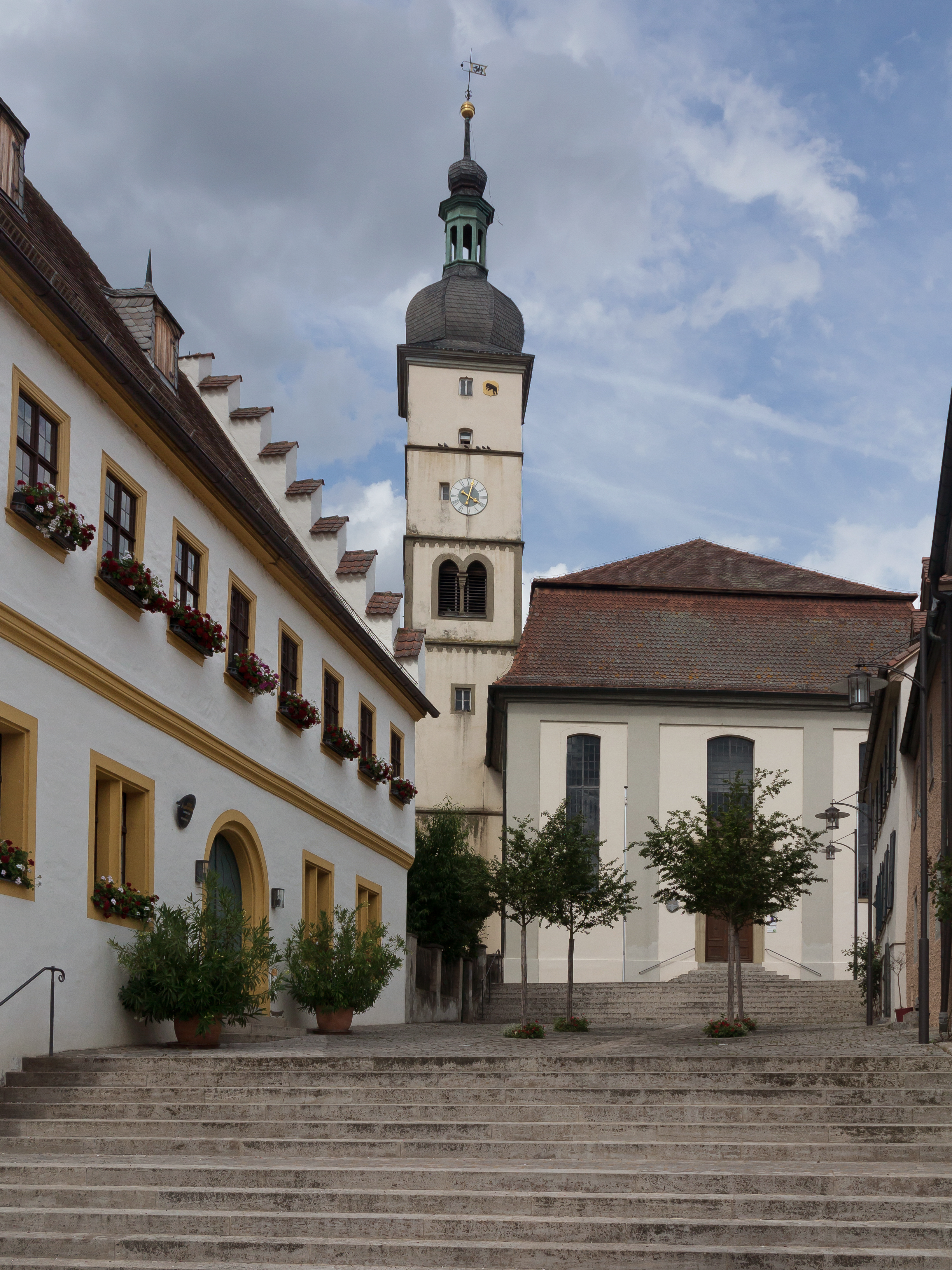 Mainbernheim, church: die evangelisch-lutherische PfarrkircheThis is a photograph of an architectural monument.